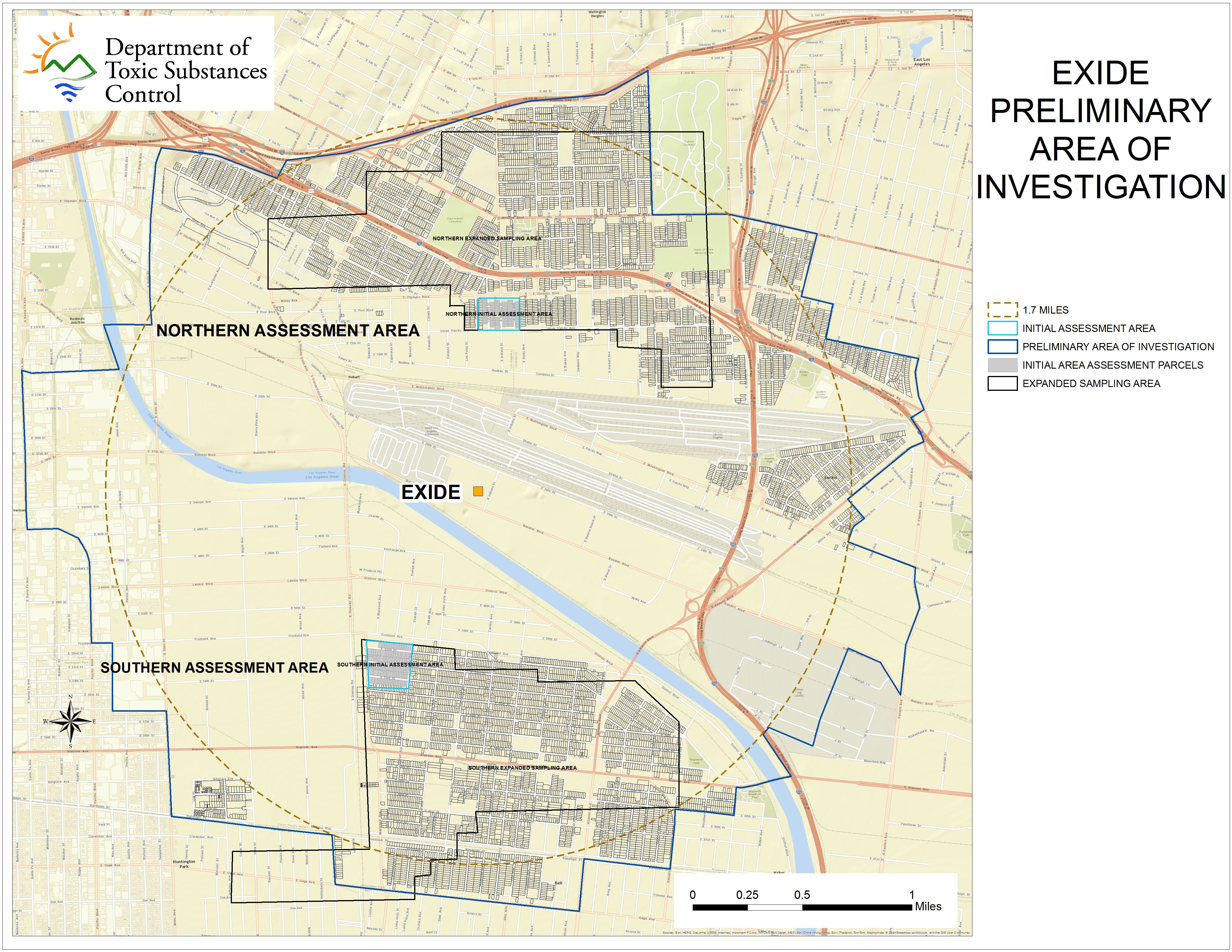 Exide Preliminary Area of Investigation map.